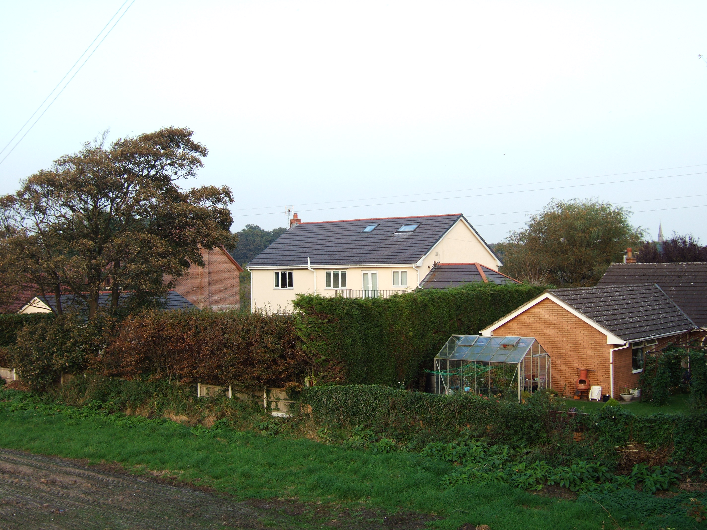 The site of Halsall railway station (closed 1938) in the village of Halsall, Lancashire, England. The white house in the centre is the old station building, and is now used as a private residence. The tracks, lifted in 1952, ran parallel to the edge of the field.